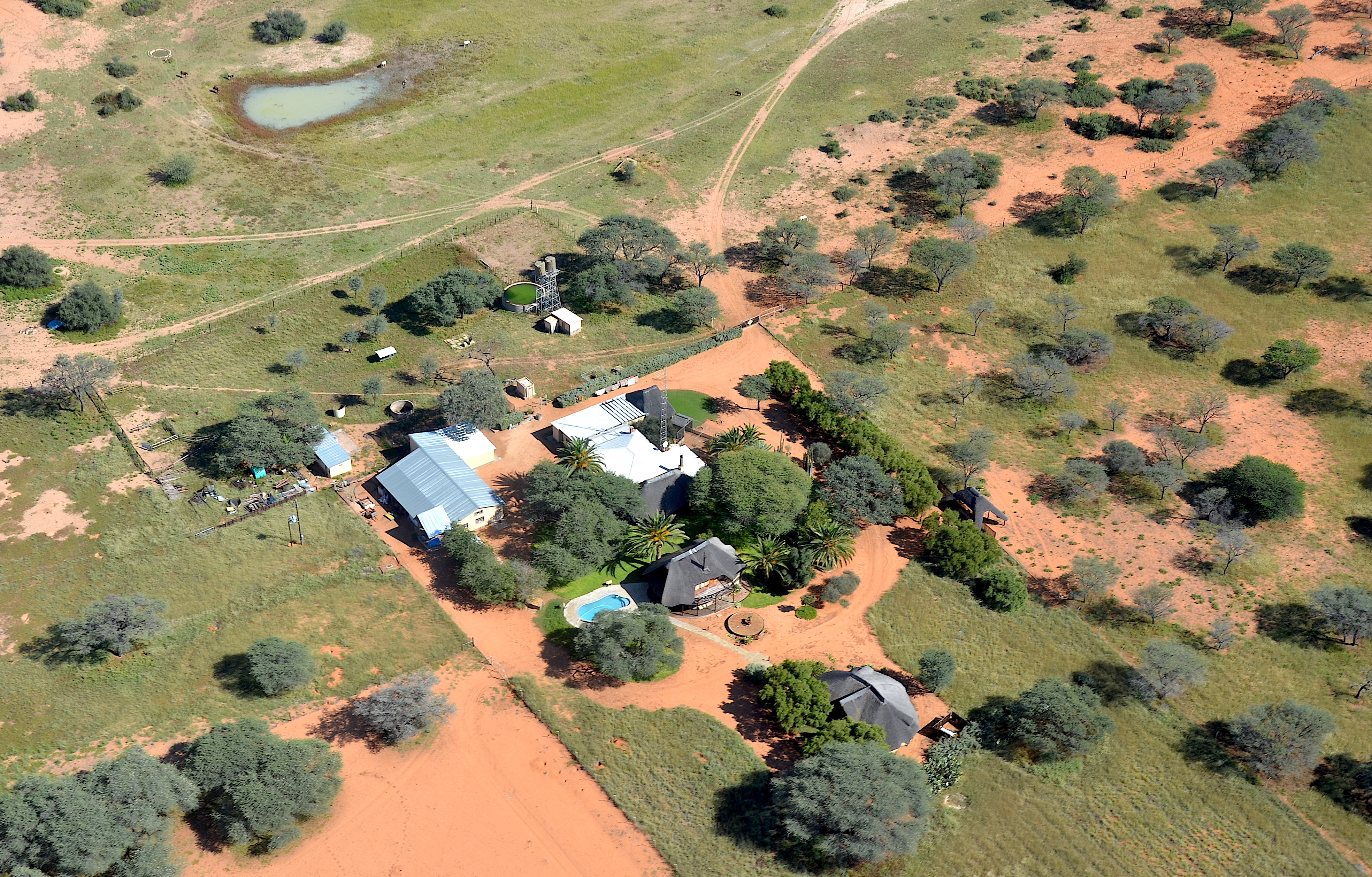 Farm Neuhof in Namibia (2017)